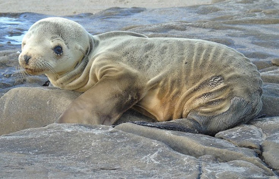 "A malnourished sea lion pup is stranded on shore in 2015. A marine heat wave lasting from 2013 to 2016 stranded sea lion pups along the California coast in record numbers. Rescued pups were in a malnourished state by the time they arrived at rehabilitation centers." (Laura Naranjo "The Blob", NASA, March 15th 2019)